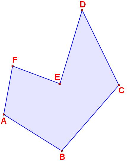 Polygon with highlighted vertices